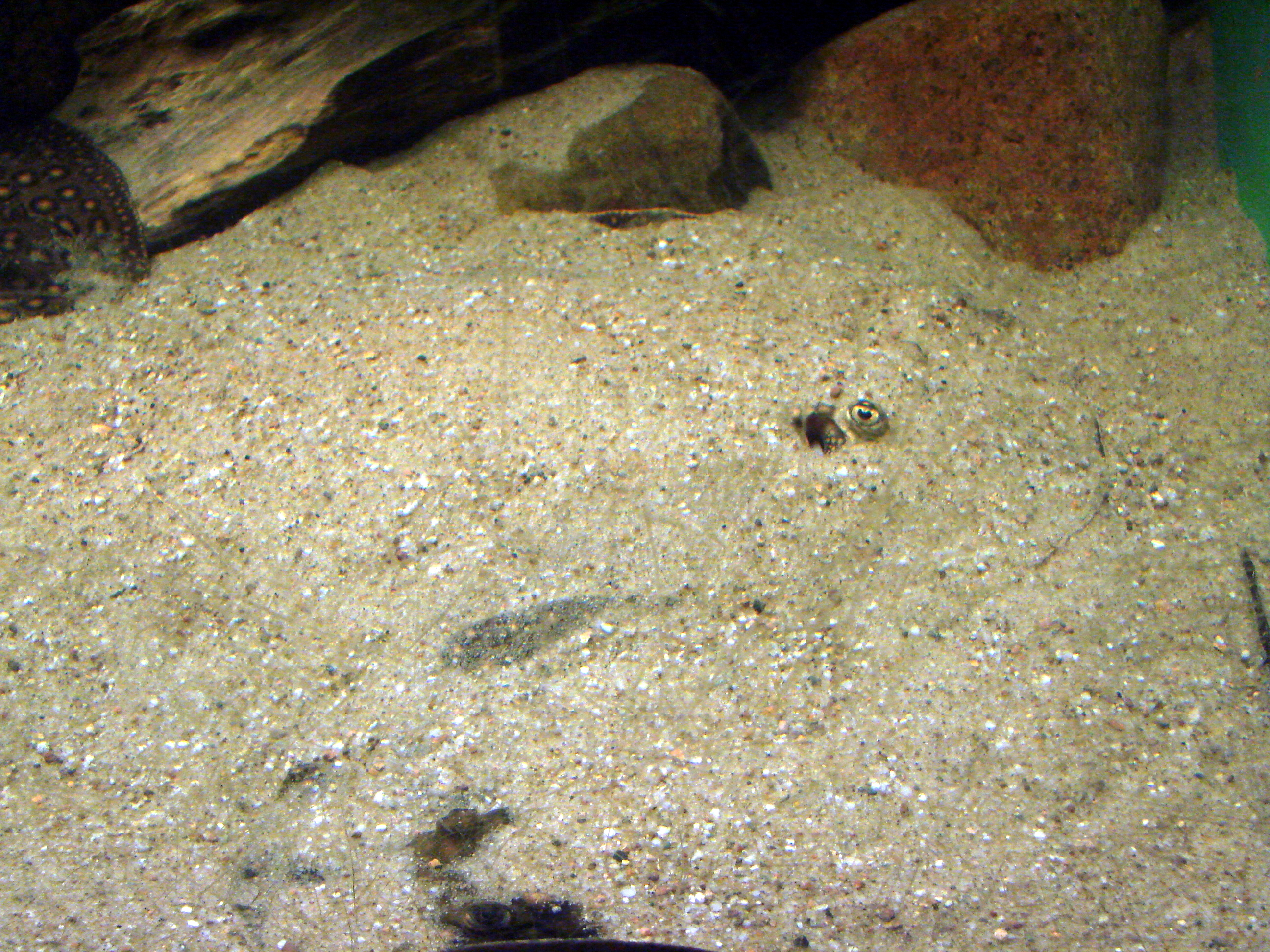 Animal species: Ocellate river stingray (Wrocław zoo)